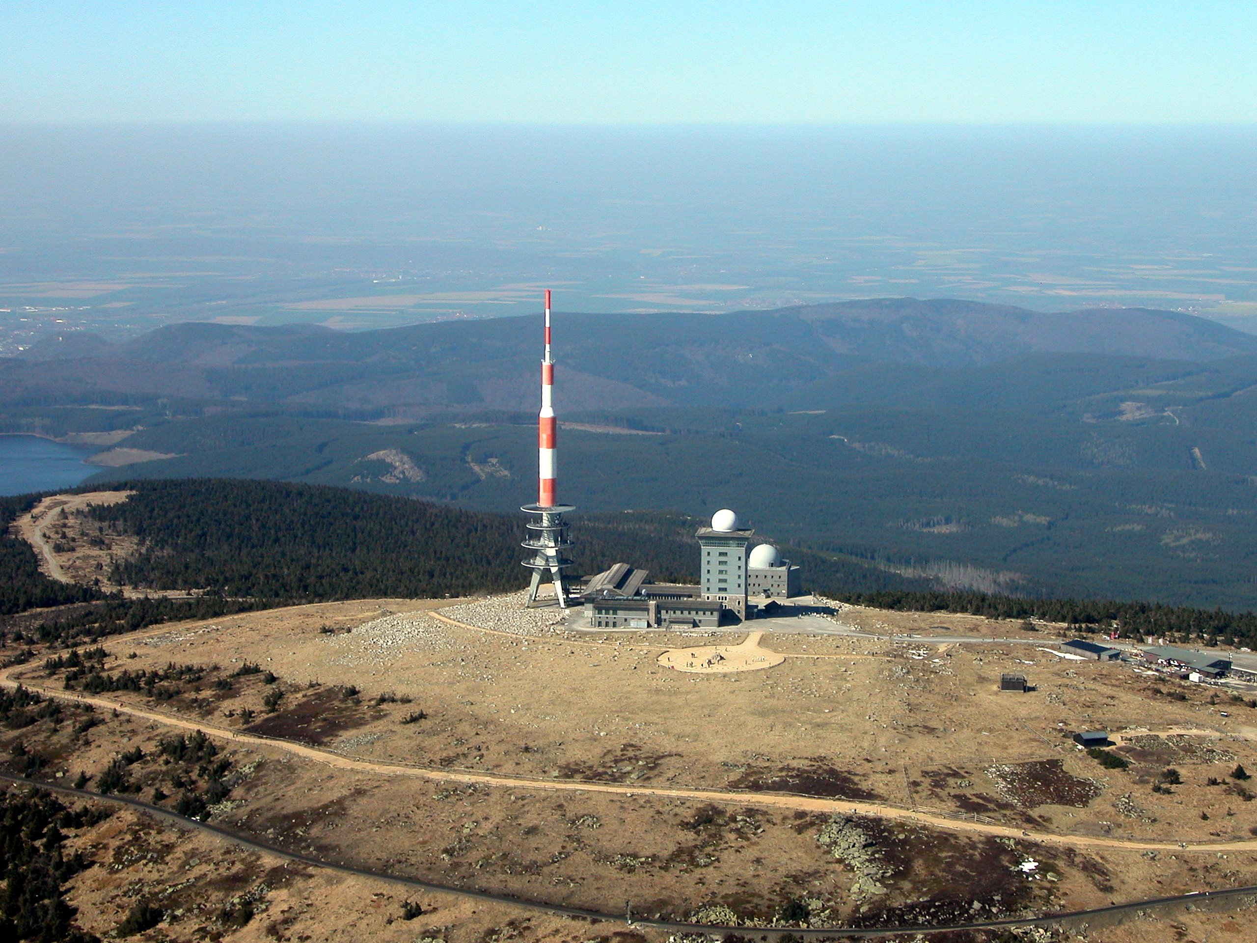 Aerial photograph of The Brocken in the Harz, Germany.